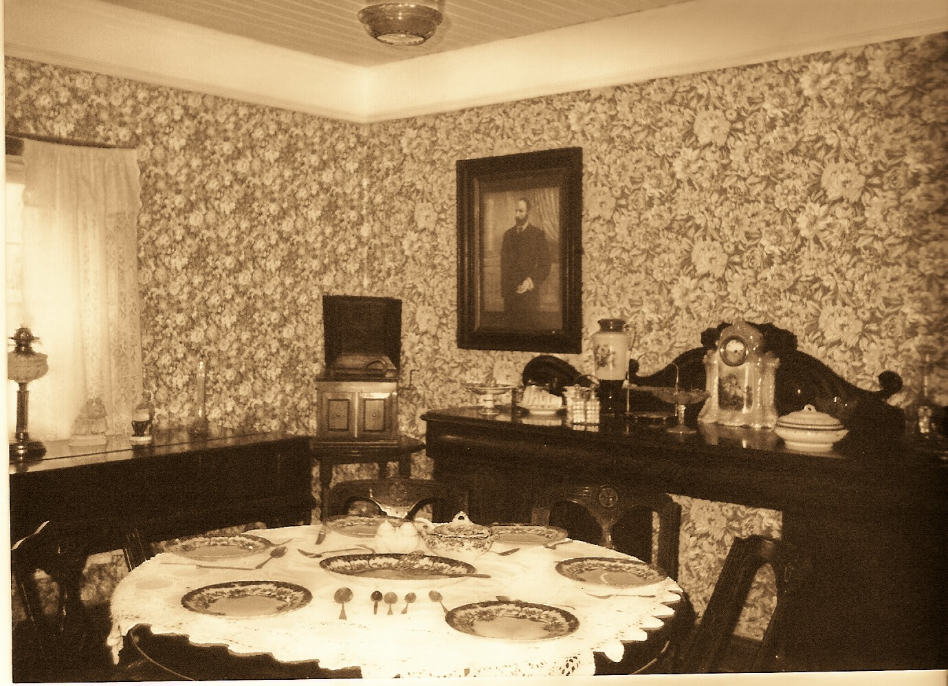 The dining room